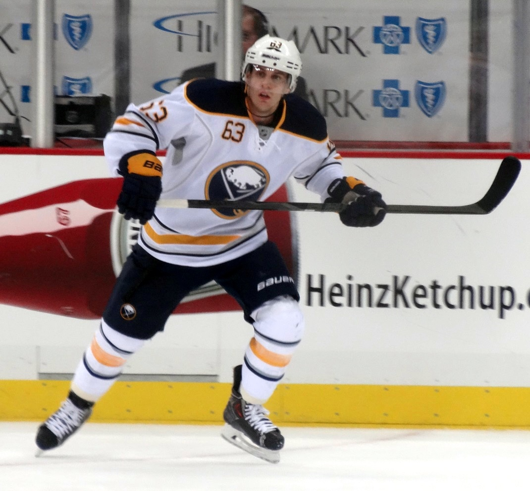 Buffalo Sabres forward Tyler Ennis skates against the Pittsburgh Penguins, October 5, 2013, at Consol Energy Center in Pittsburgh, PA.